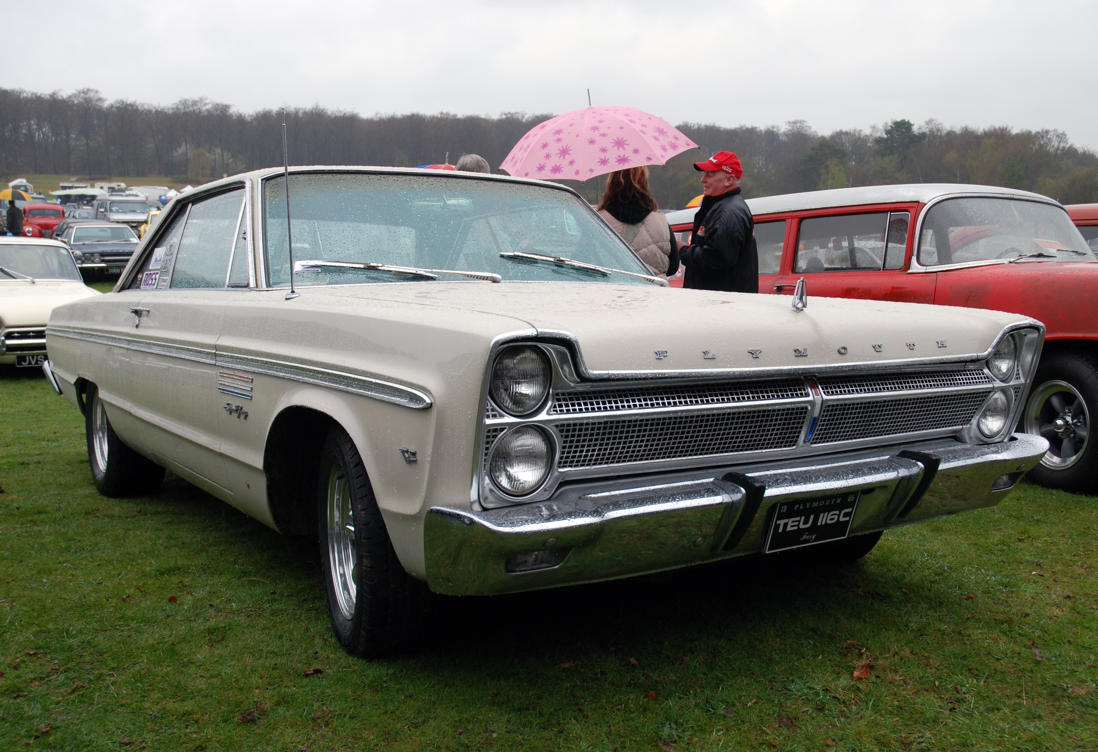 1965 Plymouth Sport Fury, Wheels Day, Apr 2009